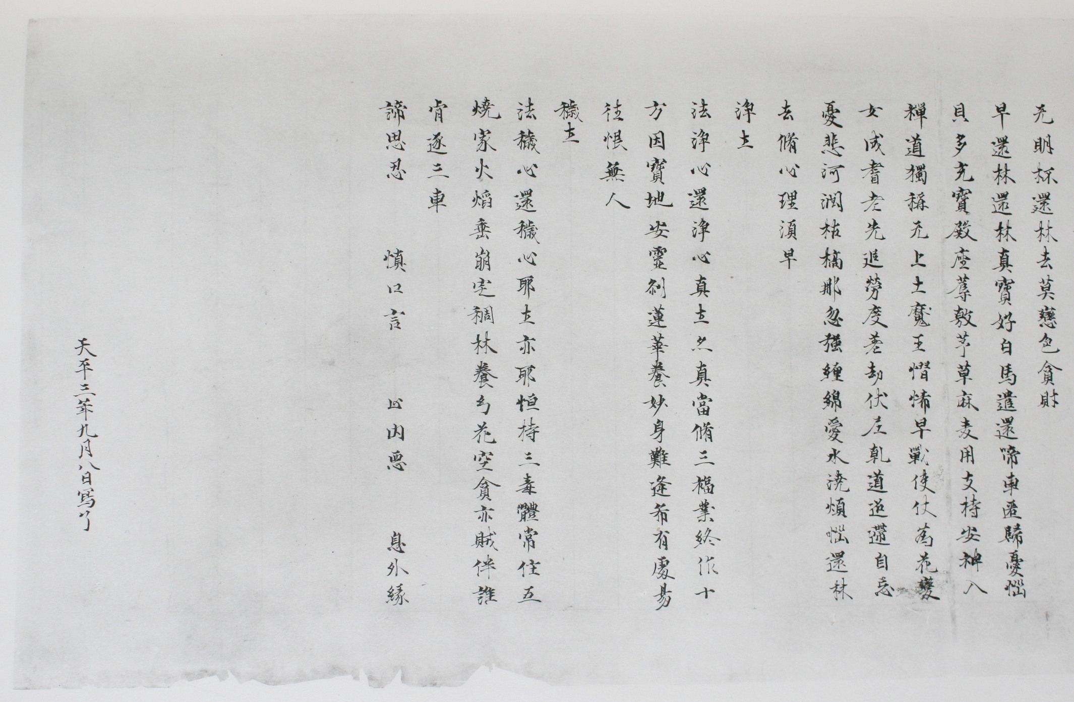 Emperor Shomu, Zasshu, last part, a handscroll, ink on paper,21x2135cm, dated September 8th(Lunar Calendar) , ACE731. Shosoin Collection, Nara, Tokyo